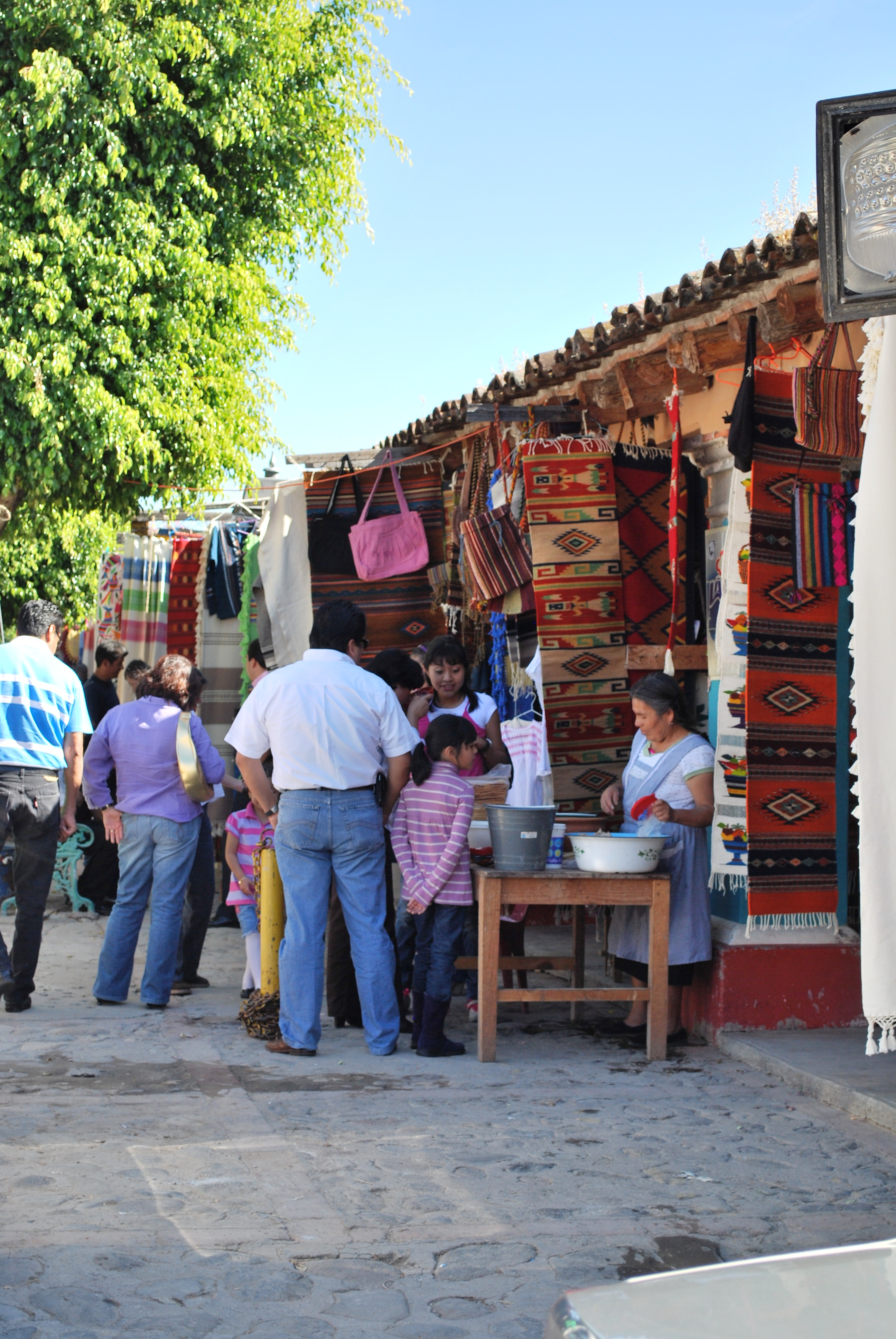 Rugs and other textiles for sale in the center of Teotitlán del Valle, Oaxaca, Mexico